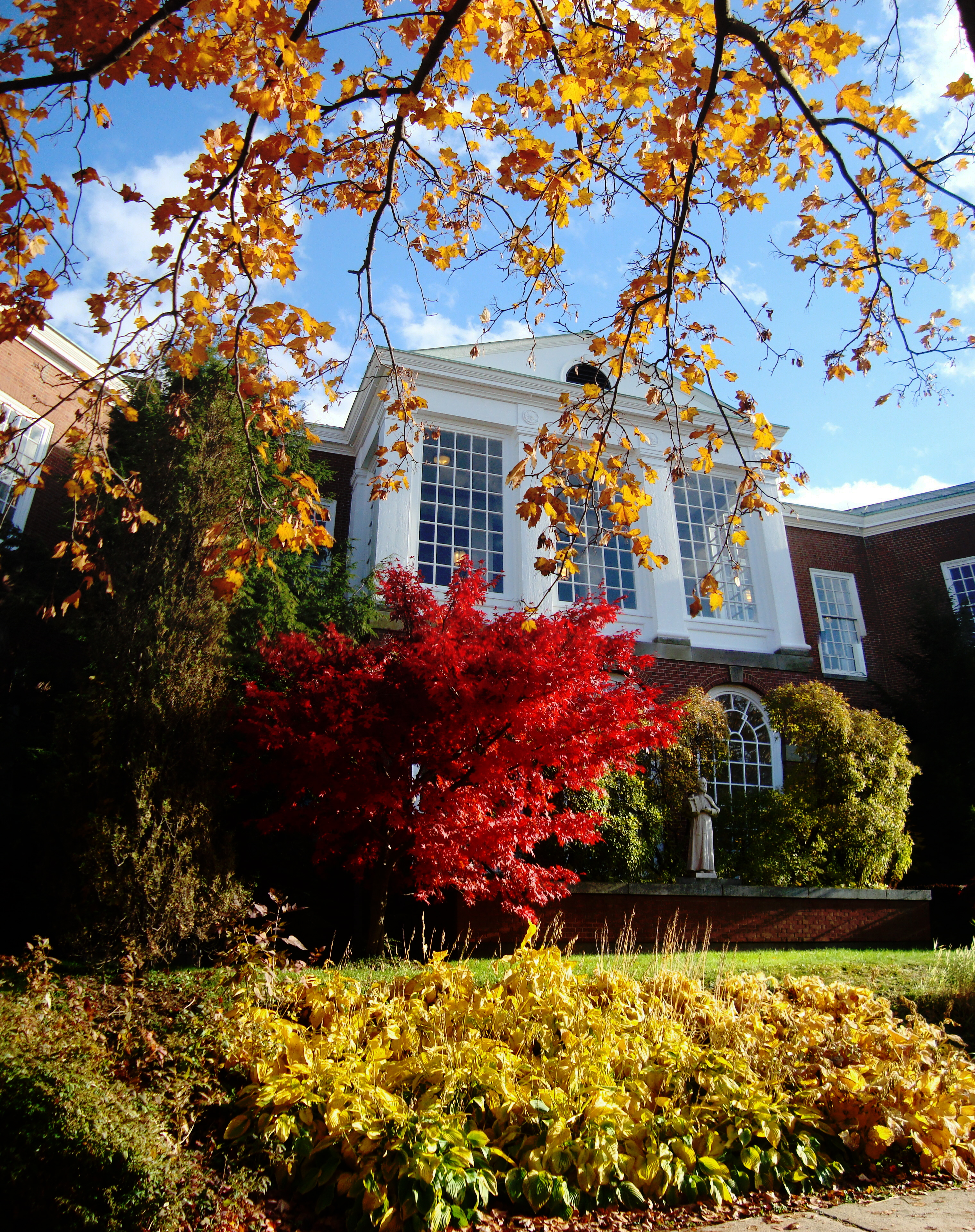 St. Francis Xavier University Library, Antigonish, Nova Scotia